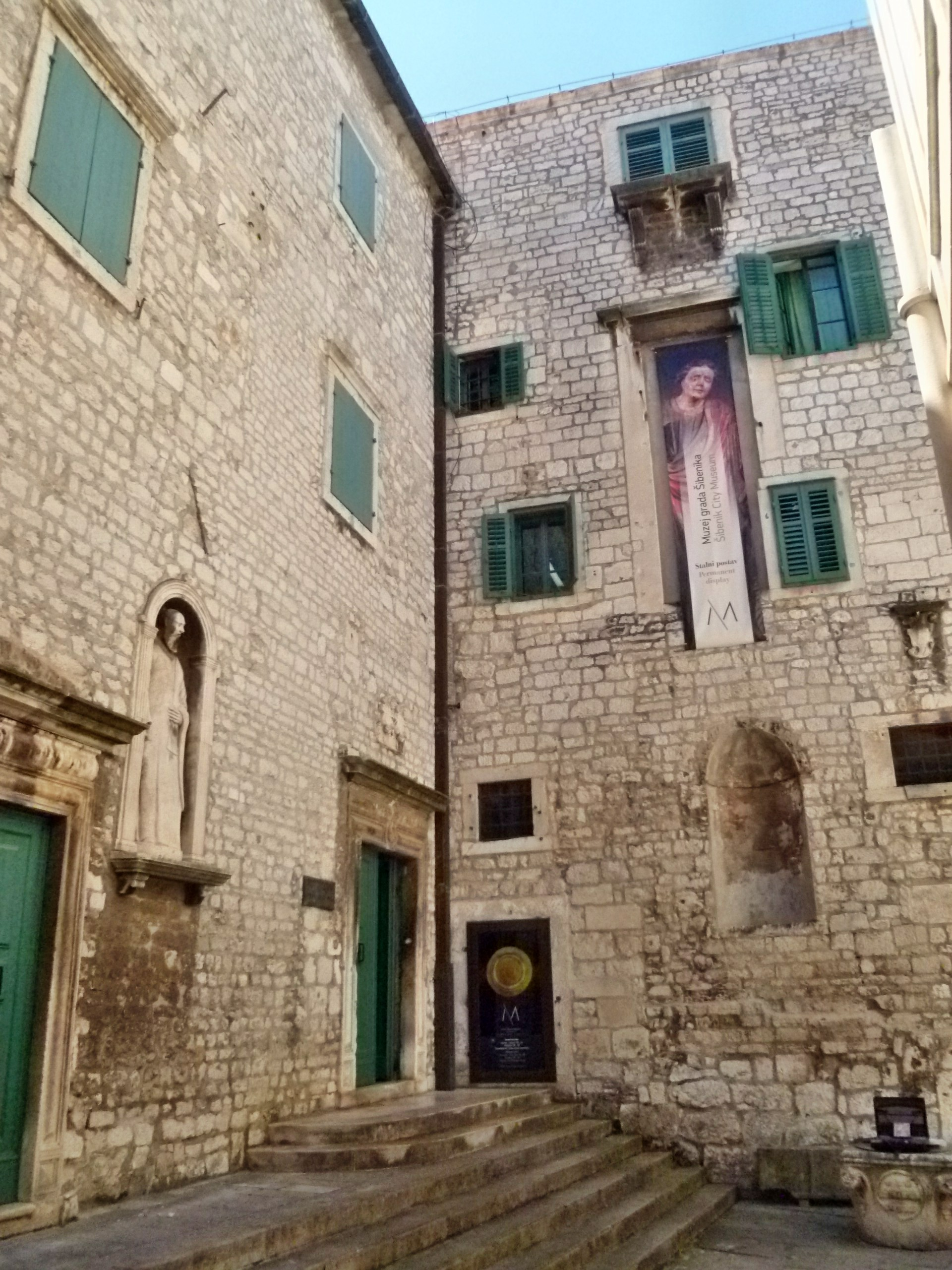 City Museum, Šibenik, Croatia